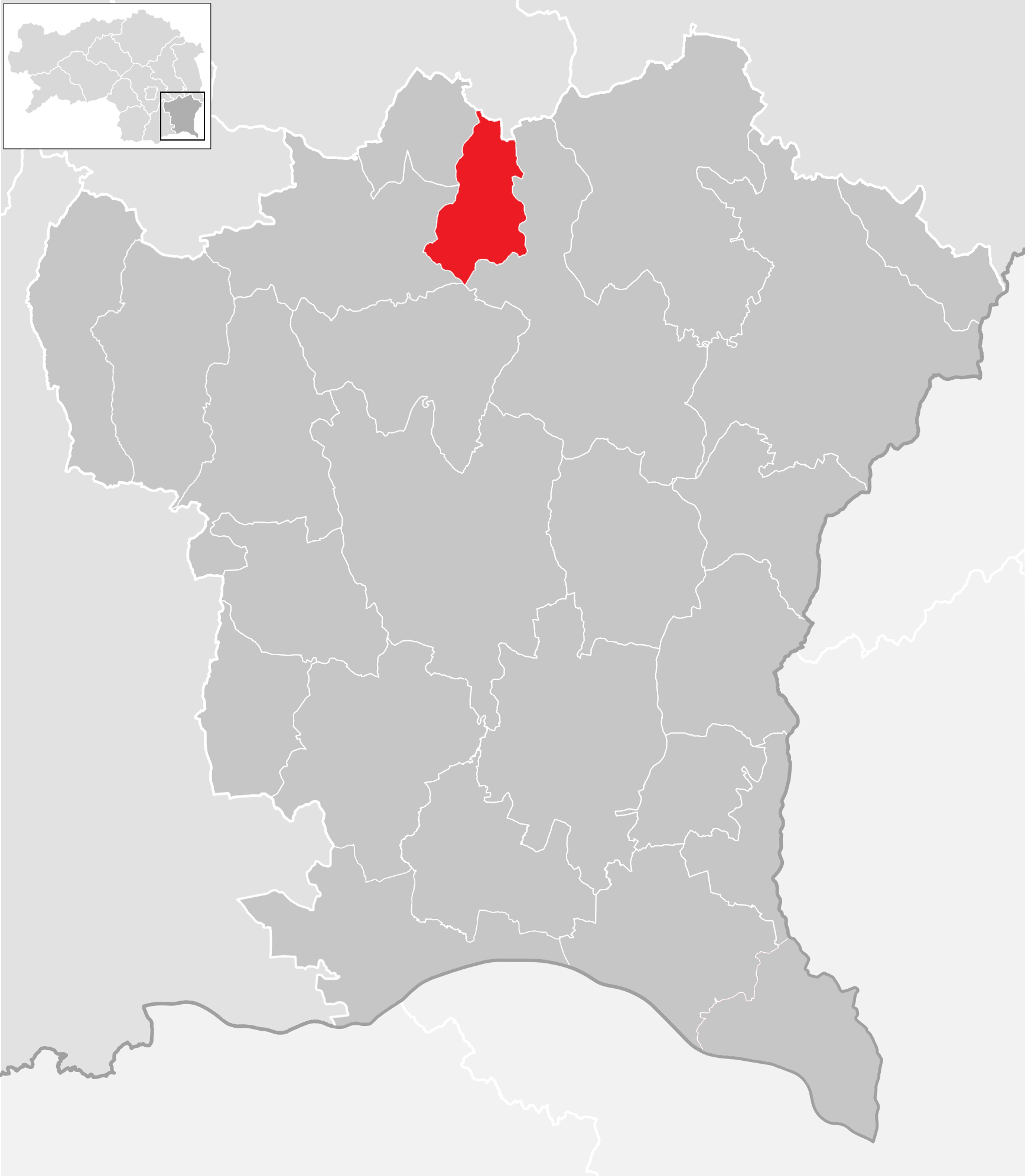 district Südoststeiermark